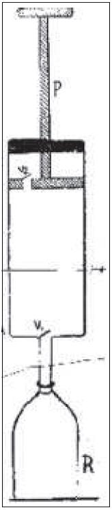 low pressure tube